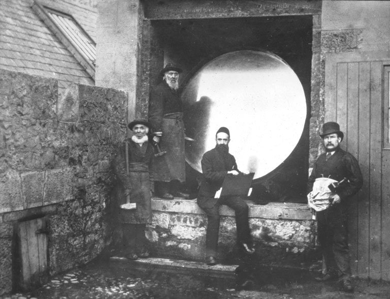 Reference: DS.GP.1919/3630 This photograph shows the 60" Mirror built for William Parsons, Earl of Rosse for his Telescope, said to be the largest telescope of the 19th century, The Earl of Rosse was famous for his astronomical studies in the 1800's. This photograph is taken from the Grubb Parsons Ltd collection at Tyne & Wear Archives. The records of Grubb Parsons Ltd, Newcastle upon Tyne, England, consist of 65 linear metres (213 linear feet) of files, plans, photographs and glass plate negatives relating to this internationally renowned firm's manufacture of precision telescopic instruments. The original Business was founded in the early nineteenth century by Thomas Grubb, in 1925 the company was acquired by Sir Charles Parsons and continued to manufacture Telescopic and Astronomical instruments until 1985. This Glass Lantern Slide is taken from a large collection that documents the work of Grubb Parsons Ltd at their workshop in Walkergate, Newcastle upon Tyne. It was here that Grubb Parsons Ltd manufactured Telescopic and Astronomical equipment for companies and observatories world wide. Their equipment was designed and built for use and research across the Globe, to name only a few of these locations Grubb Parsons Ltd supplied to the UK, Switzerland, Denmark, Egypt, South Africa, Greece, Australia, Japan, India, Hawaii, Poland, Chile, Canada, France and Spain. (Copyright) We're happy for you to share these digital images within the spirit of The Commons. Please cite 'Tyne & Wear Archives & Museums' when reusing. Certain restrictions on high quality reproductions and commercial use of the original physical version apply though; if you're unsure please